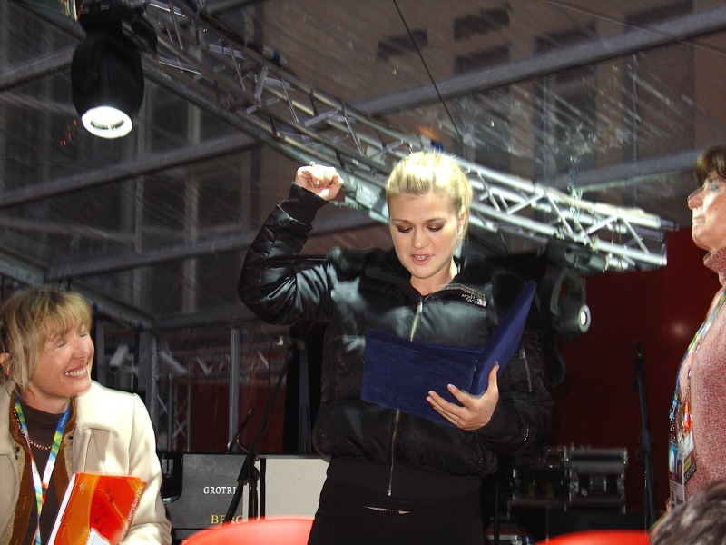 Kelly Clarkson at a press conference for the 2006 Winter Olympics.